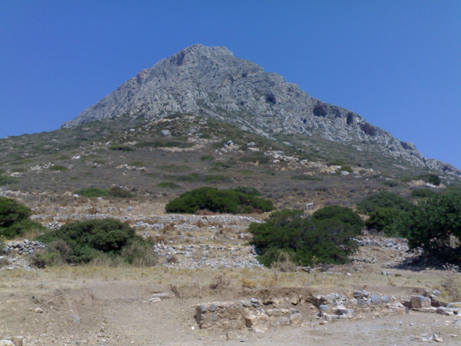 Taken at 11:19 AM on July 27, 2006; cameraphone upload by ShoZu